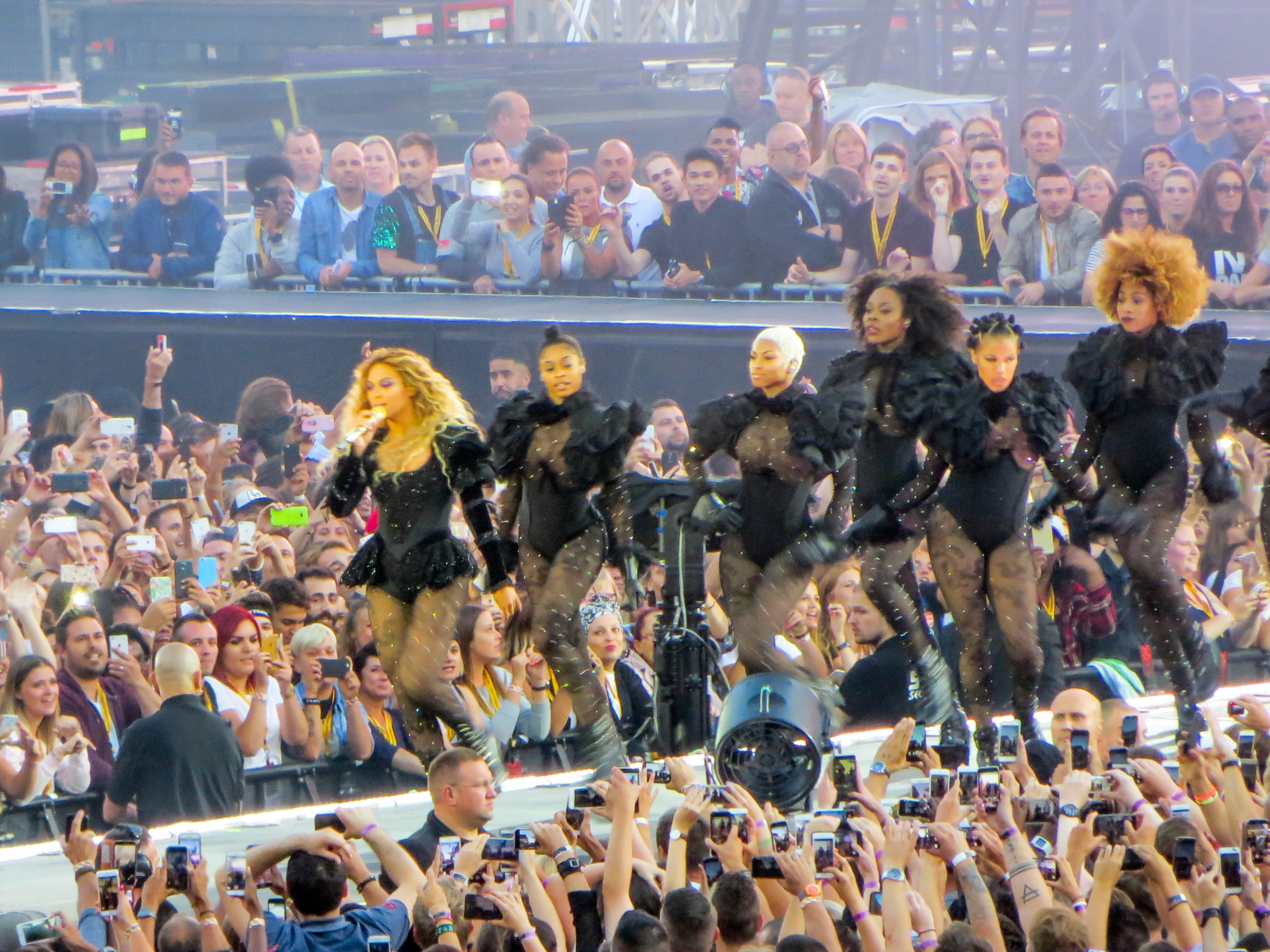 Beyoncé performing during The Formation World Tour in Brussels, Belgium, on July 31, 2016.